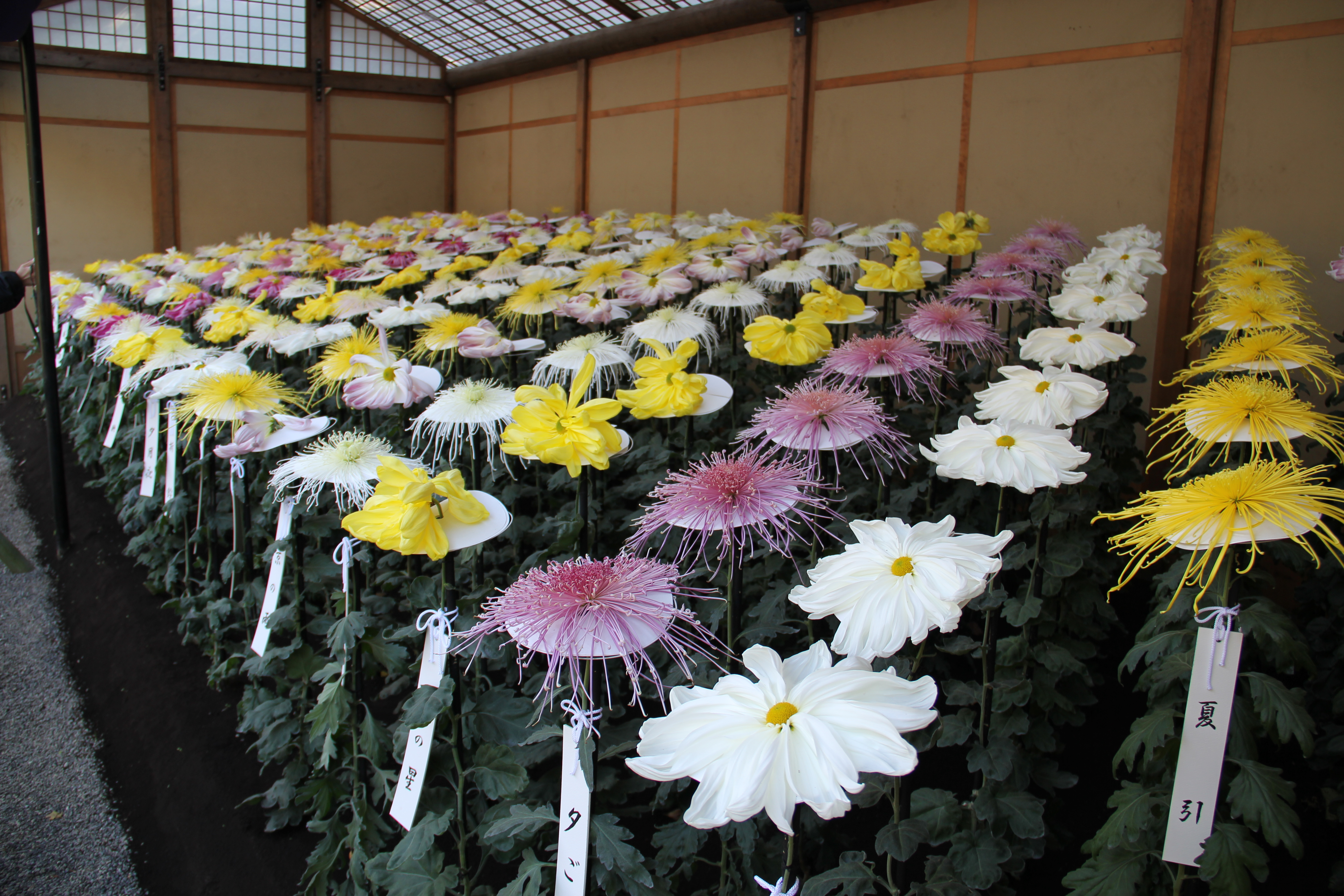 Shinjuku_Gyoen in Tokyo